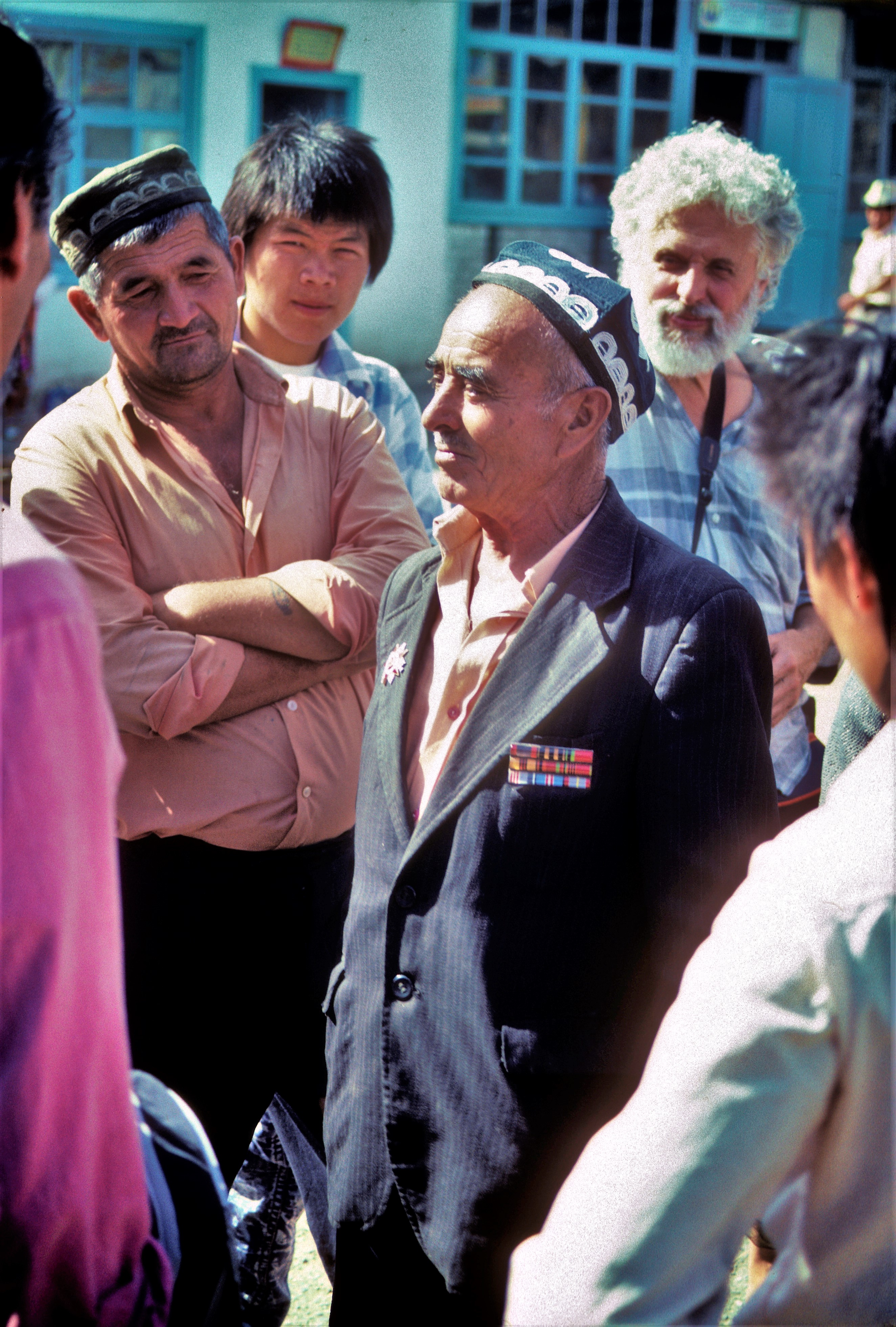 A group of Isfanans in the town's bazaar in August 1990.